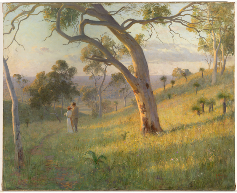 Florence Fuller's A Golden Hour (1905), oil on canvas